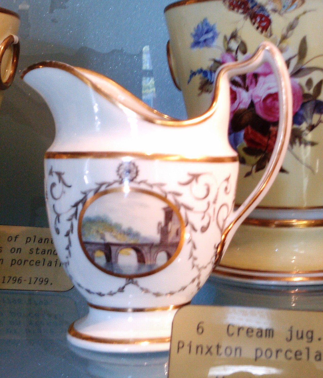 Decorated Porcelain by Pinxton Porcelainin 1800. Now in Derby Museum